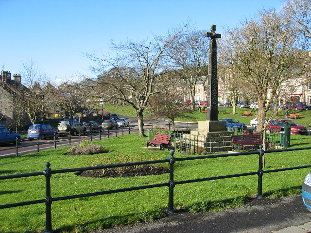 Rothbury.